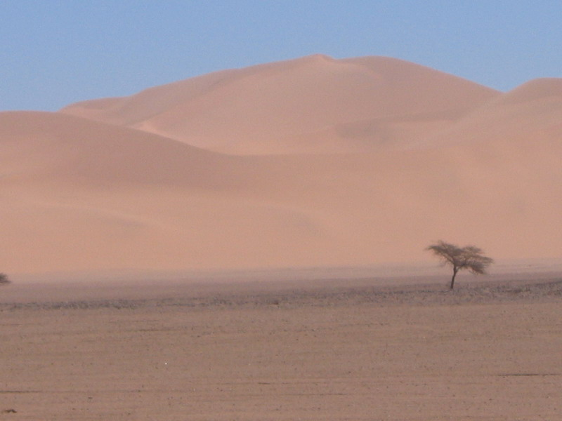 Gebel Elba, Hala'ib Triangle, Egypt/Sudan